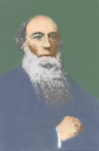 This is a colorized picture of a late 1800s image of J. Stuart Russel. It was scanned from an 1800s version of his book in black and white and I enhanced it using Photoshop and colorization tools. If you have questions about this picture please let me know.